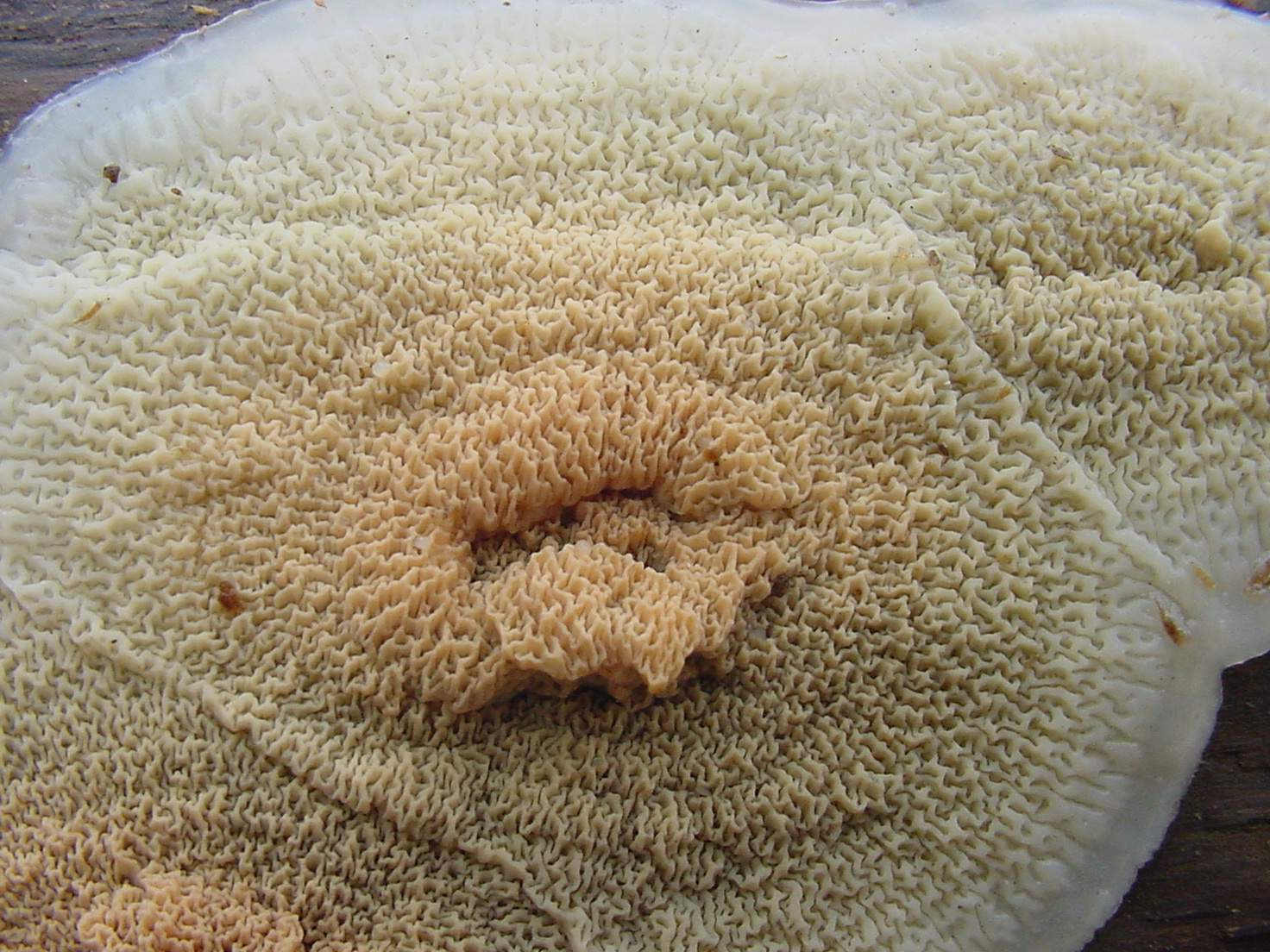 Phlebia tremellosa Location: Yuba County Foothills-700 feet Observation Notes: This was found on down Oak branches at 700 feet elevation.Could have been Live, White, Blue or Oracle Oak.I believe White Oak, but this was in 2001. For more information about this, see the observation page at Mushroom Observer.